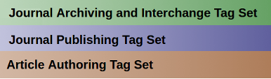 The 3 specs of jats